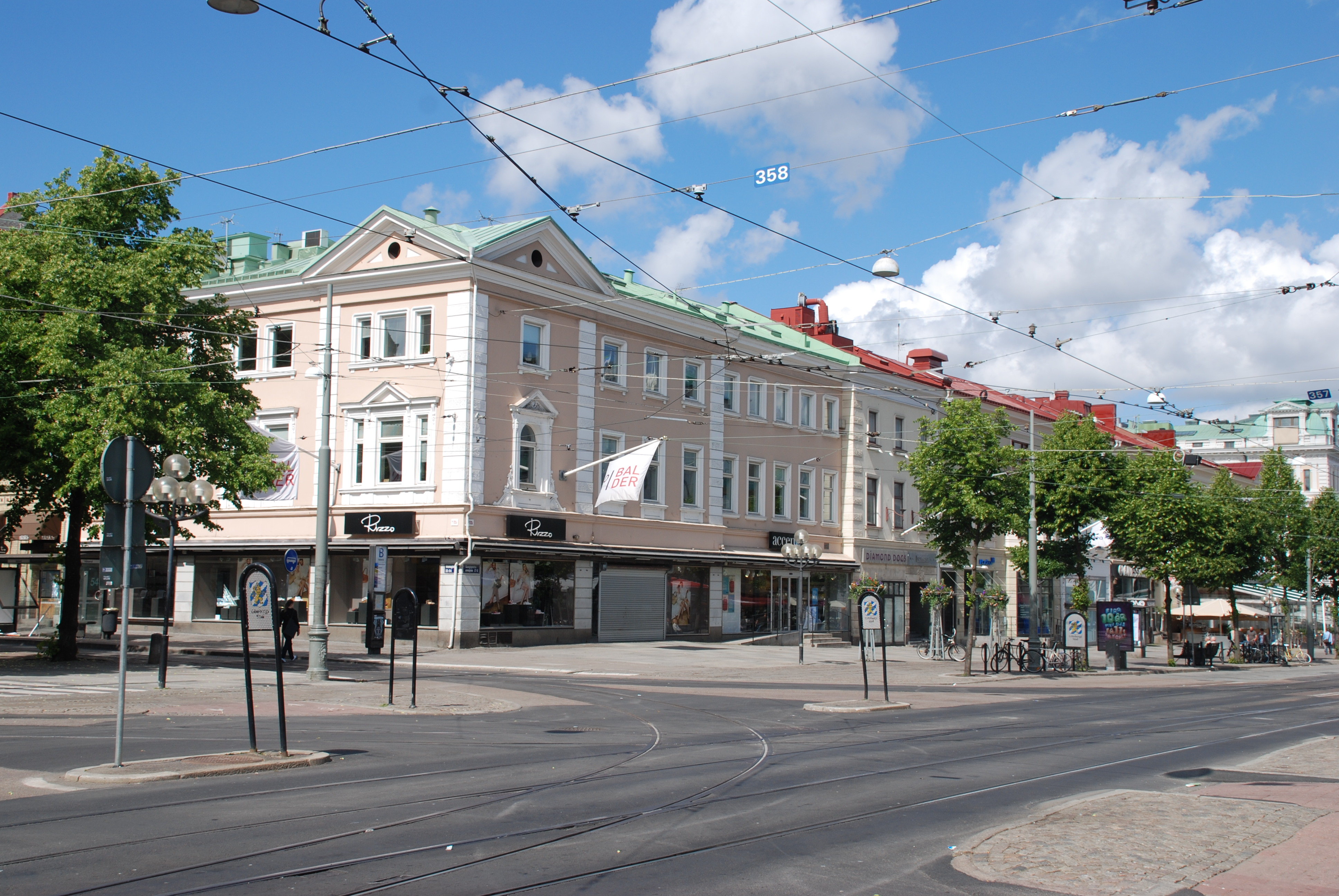 Kungsportsavenyn 17, city block 46 Kalmarehus in quarter Lorensberg in Göteborg.